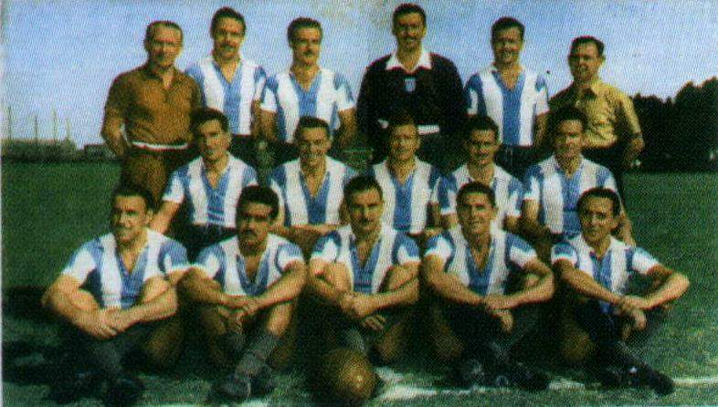 Argentine football team Racing Club (Avellaneda), which in 1949 won the first of three consecutive titles for the institution.